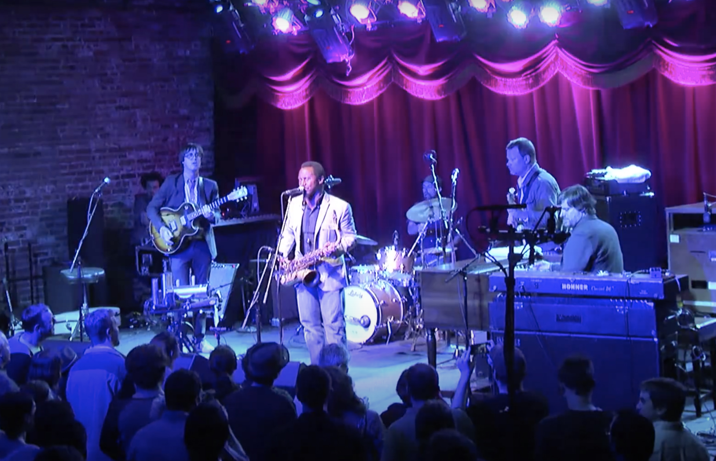 GBA live shot from Brooklyn